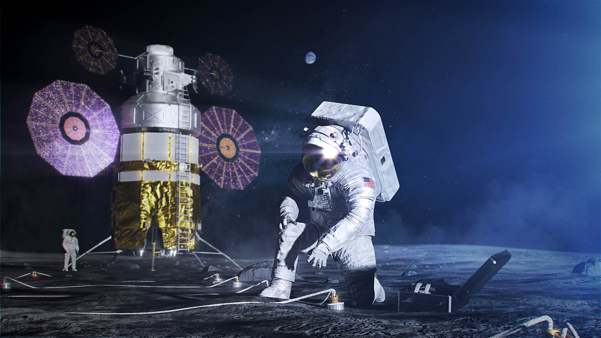 an Artist's rendition of an Artemis astronaut wearing the xEMU spacesuit on an EVA during an Artemis mission.